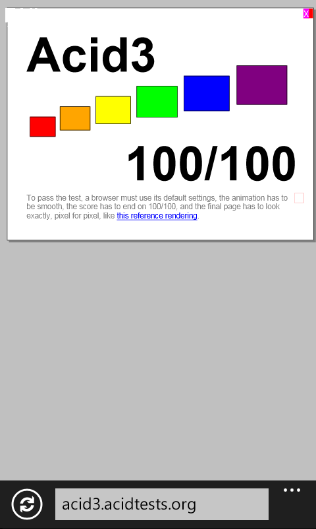 Acid3 web standards test score of Internet Explorer Mobile v9.0 as part of Windows Mobile